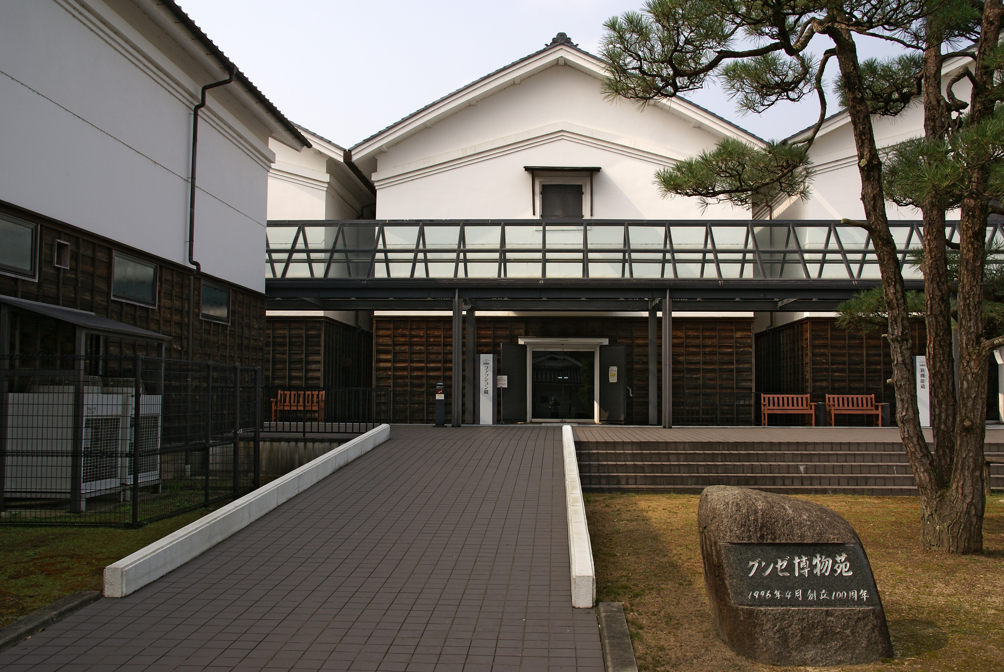 Gunze Museum in Ayabe, Kyoto prefecture, Japan